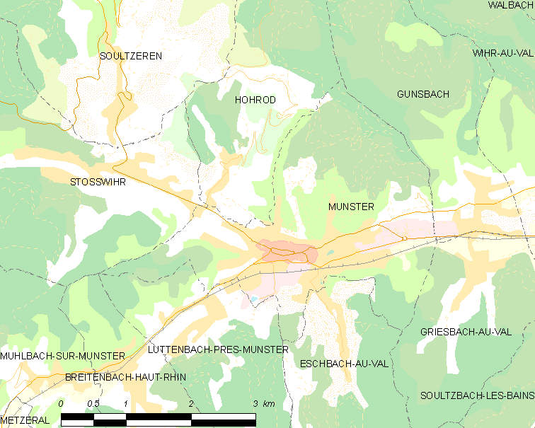 Map of French municipality